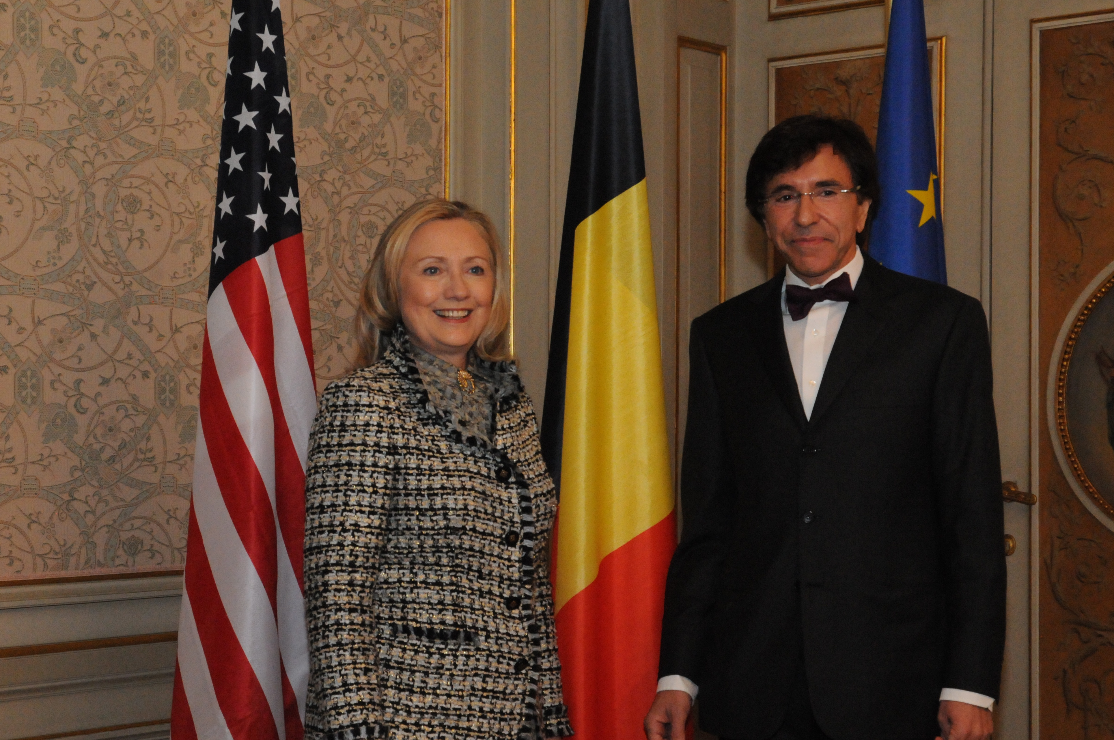 U.S. Secretary of State Hillary Rodham Clinton meets with Belgian Prime Minister Elio Di Rupo at his residence in Brussels, Belgium, on April 18, 2012. [State Department photo/ Public Domain]